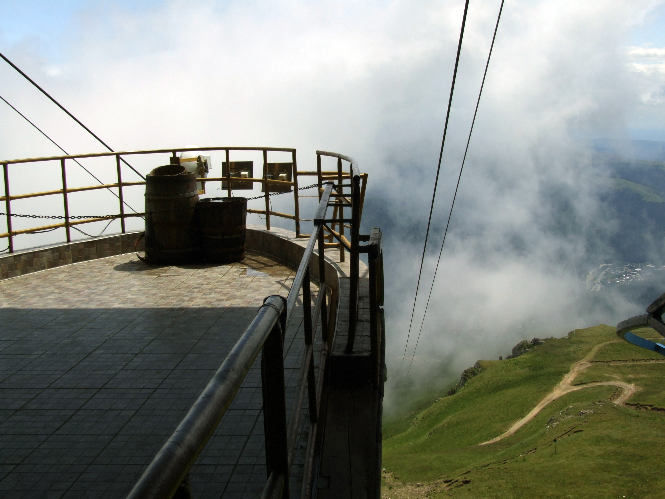 Bucegi mountains - view from gondola lift (COTA 2000)